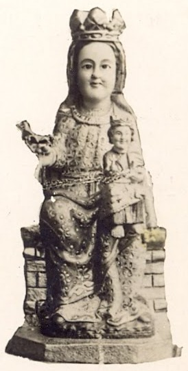 Reproduction of the sculpture of the Virgin of Idoya (Isaba, Navarra, Spain) in a devotional printing. Anonymous author. More than 80 years old.